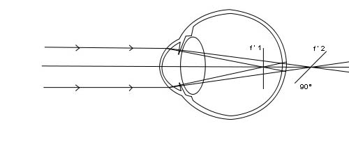 Regular astigmatism schema.